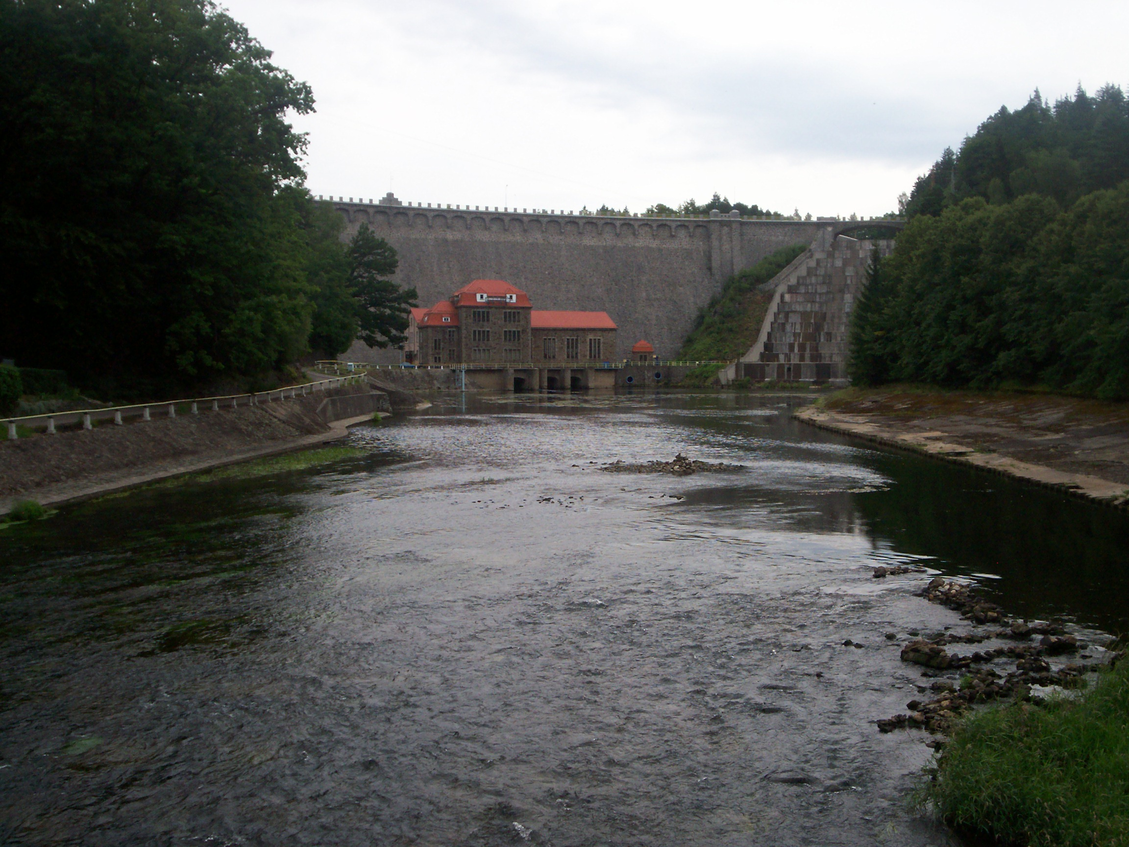 Damm and hydroelectric power station in Pilchowice, Poland, dolnoslaskie vojvodship